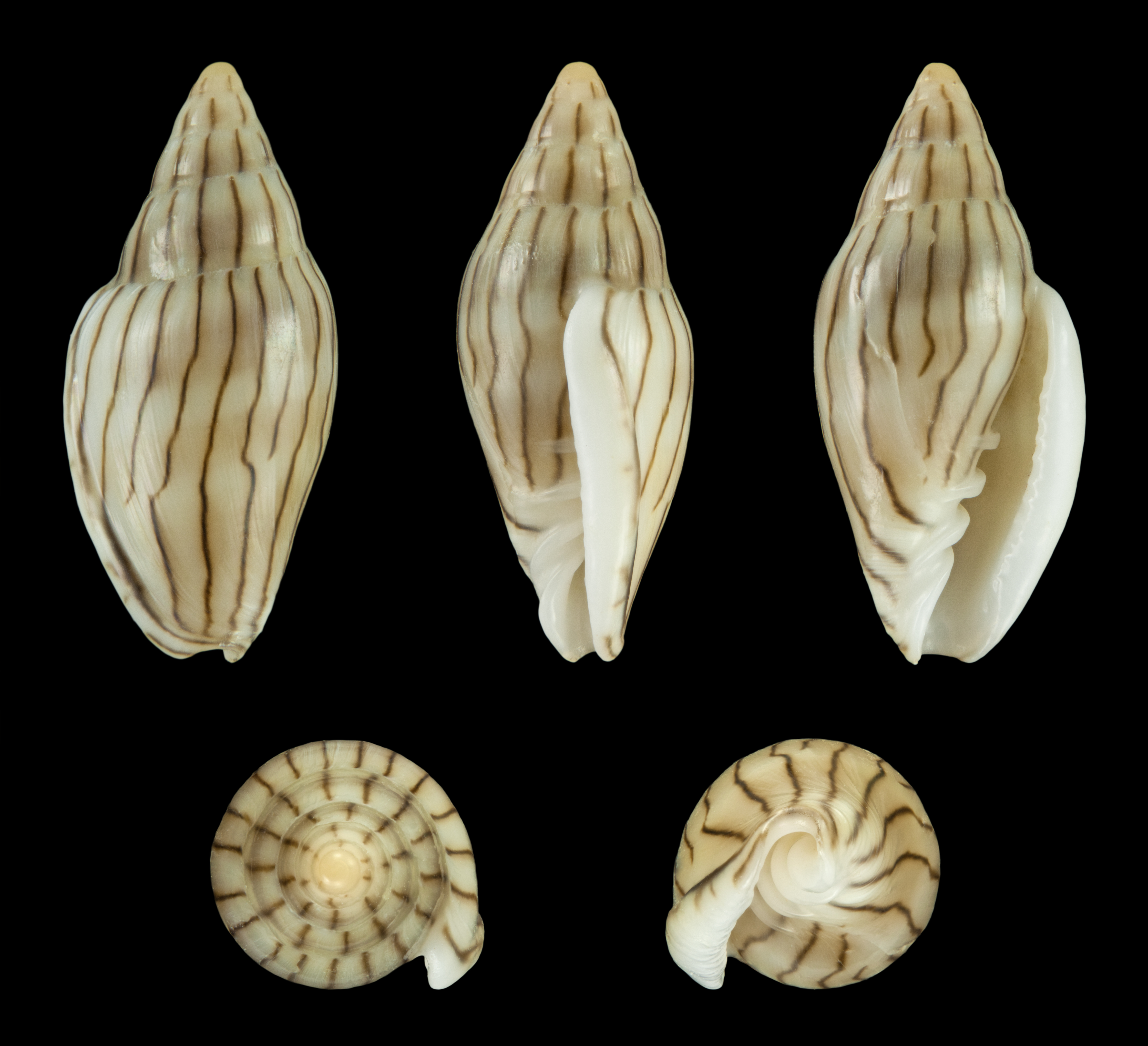 Marginella cleryi Petit de la Saussaye, 1836; Length 1.7 cm; Originating from the M'Bour, Senegal; Shell of own collection, therefore not geocoded.